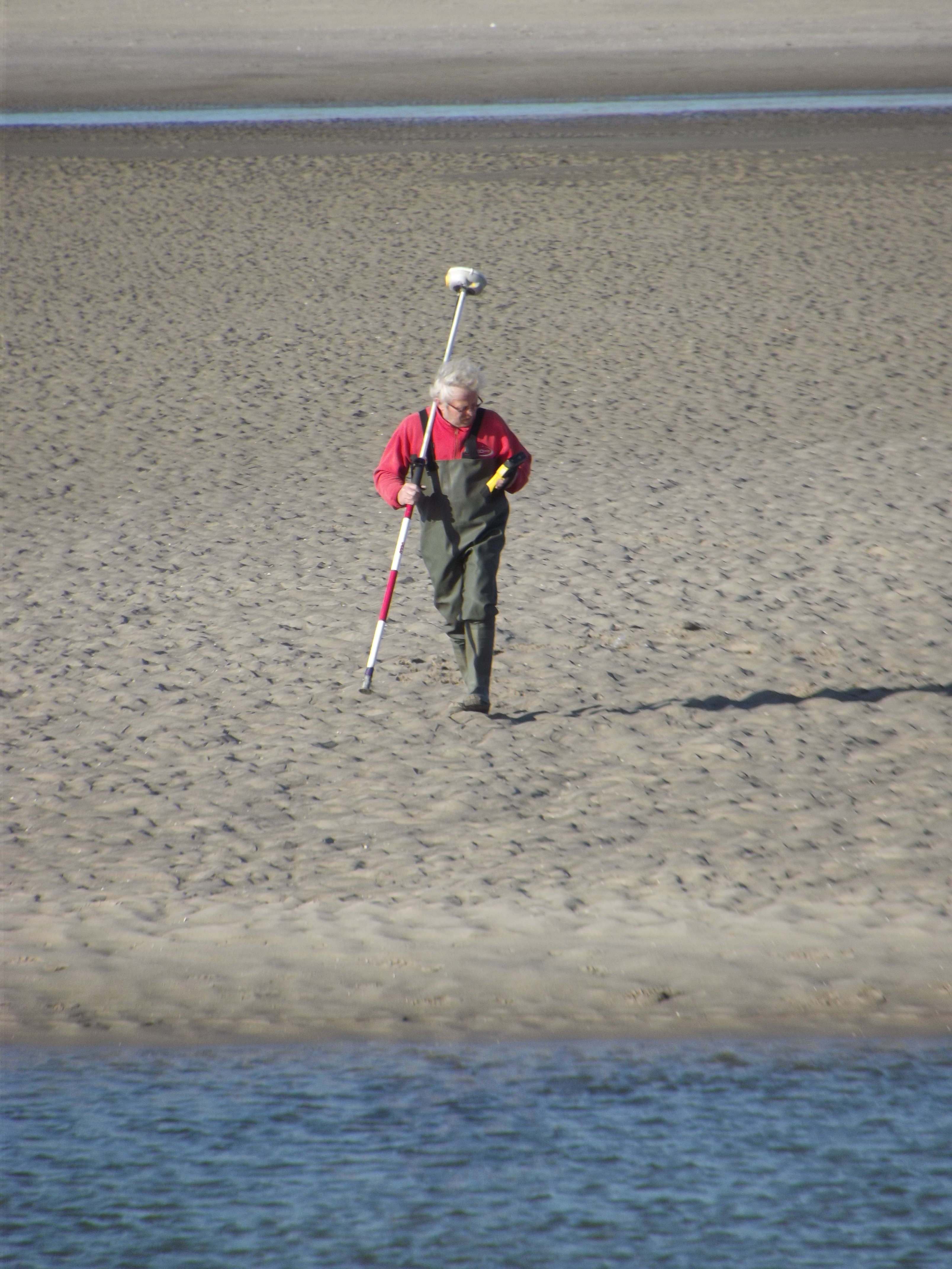 Surveying levels at the Zandmotor.